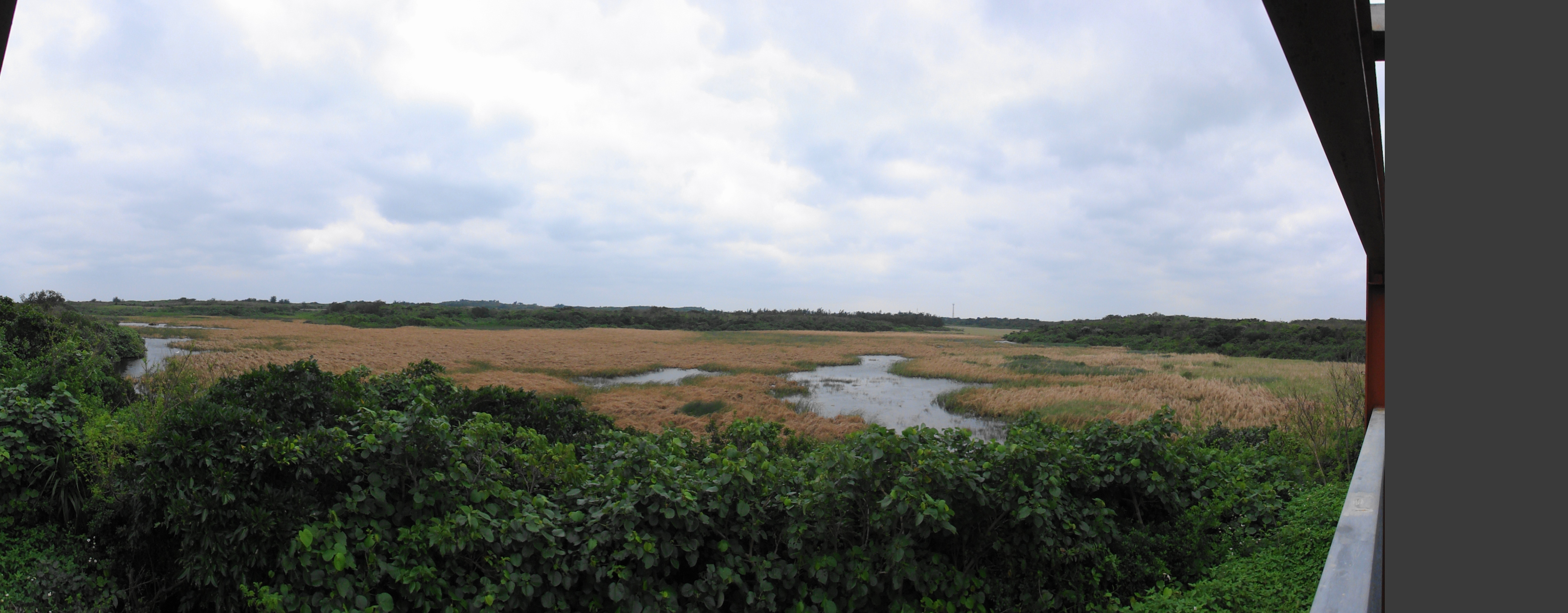 Ikema Wetland,Okinawa prefecture,Japan